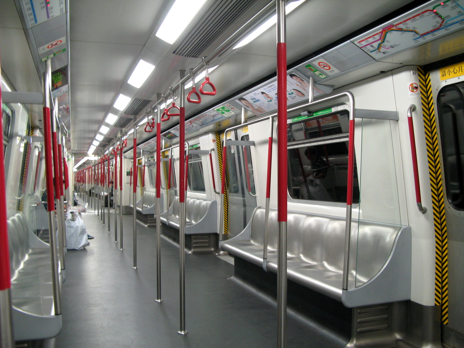 HK MTR M-Trains Interior